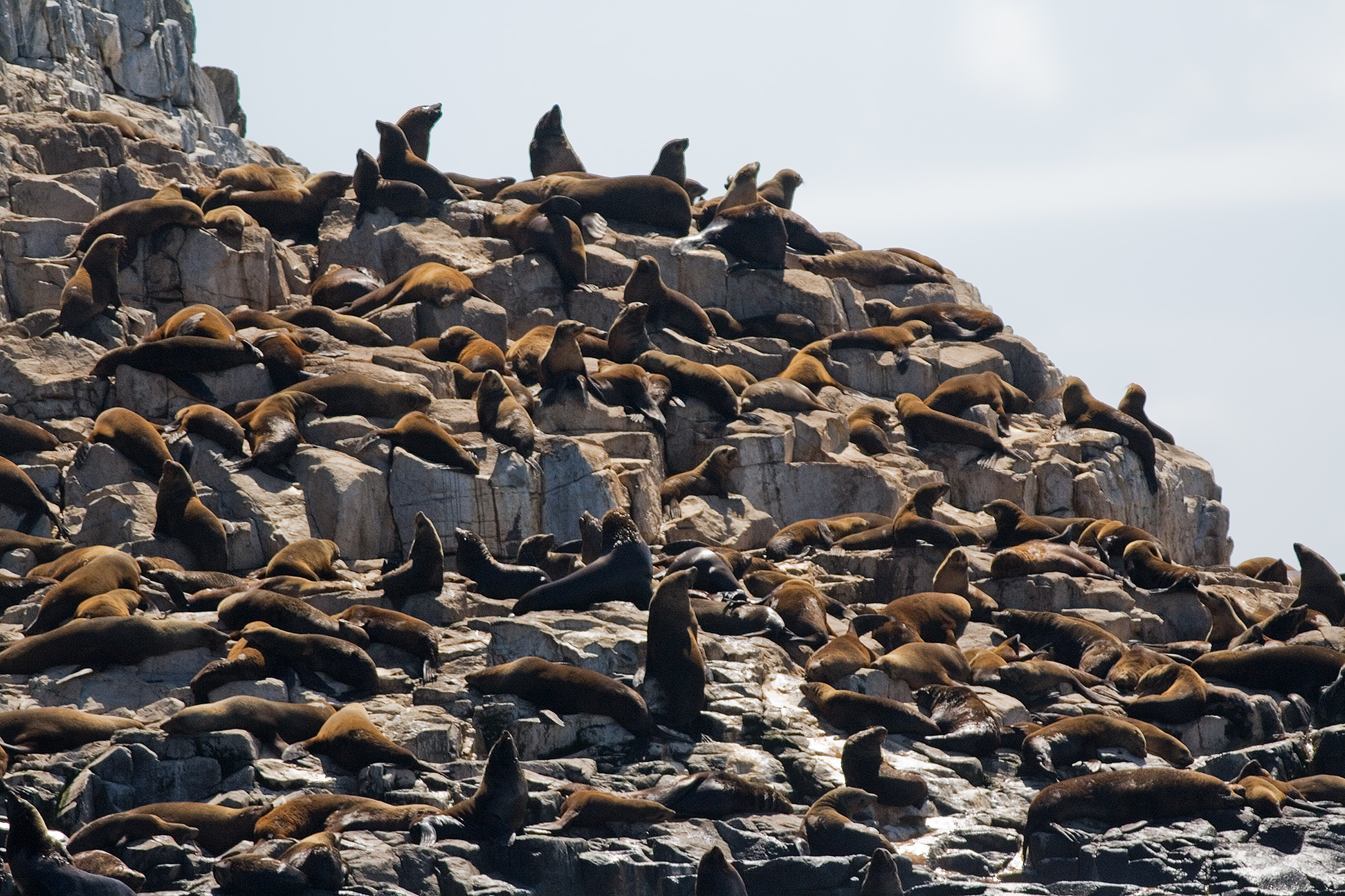 Australian Fur Seal (Arctocephalus pusillus) Colony, Friar Island, Tasmania